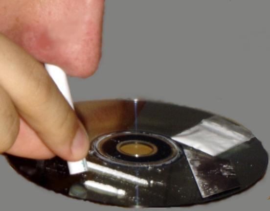 Description = Insufflation of caffeine powder Source = self-made Date = created 1 March 2006 Author = AK7 Permission = Released to Public Domain (self made)